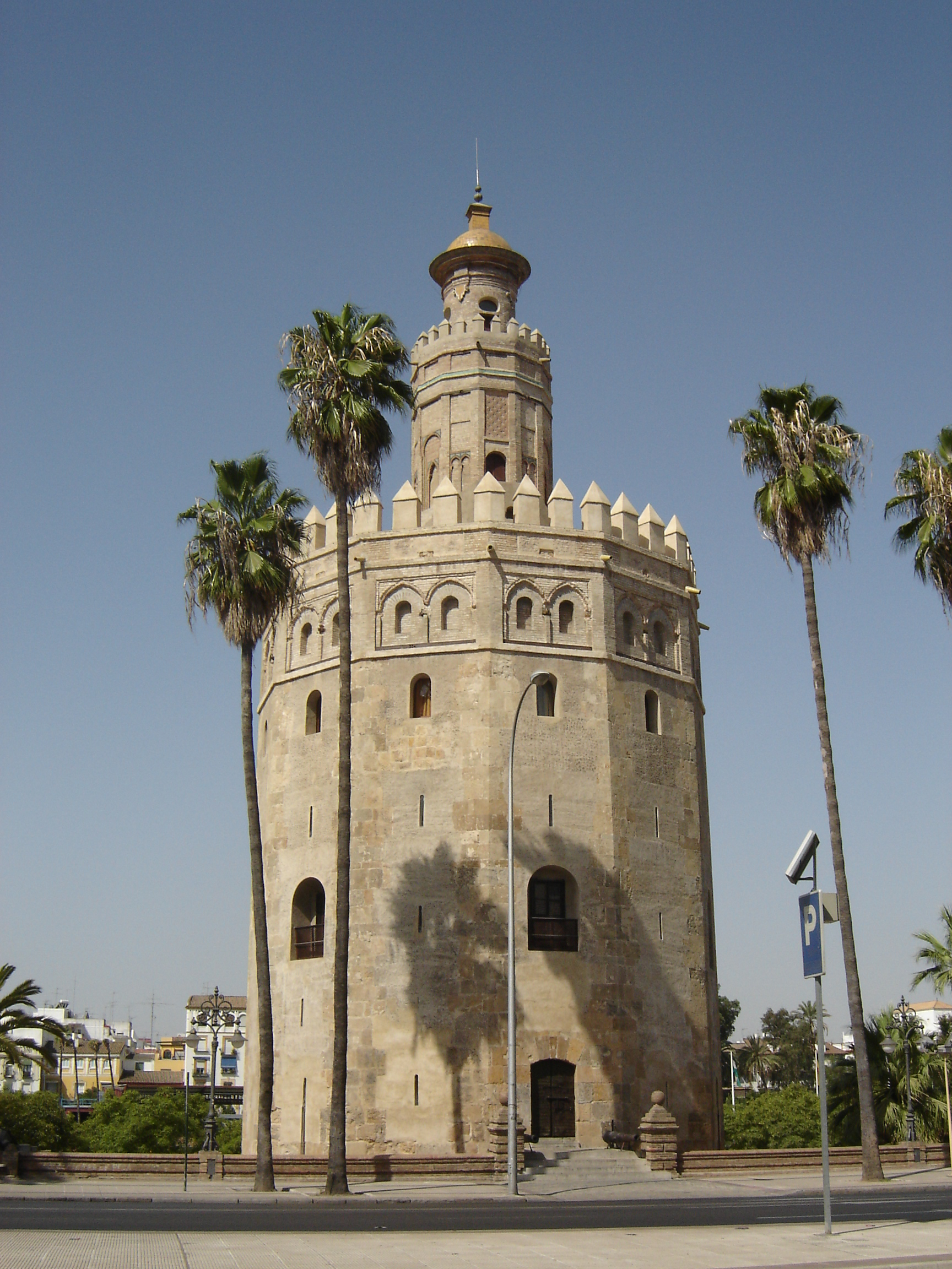 Picture of Sevilla (Spain) featuring Torre del Oro taken by me on august 31st 2005.